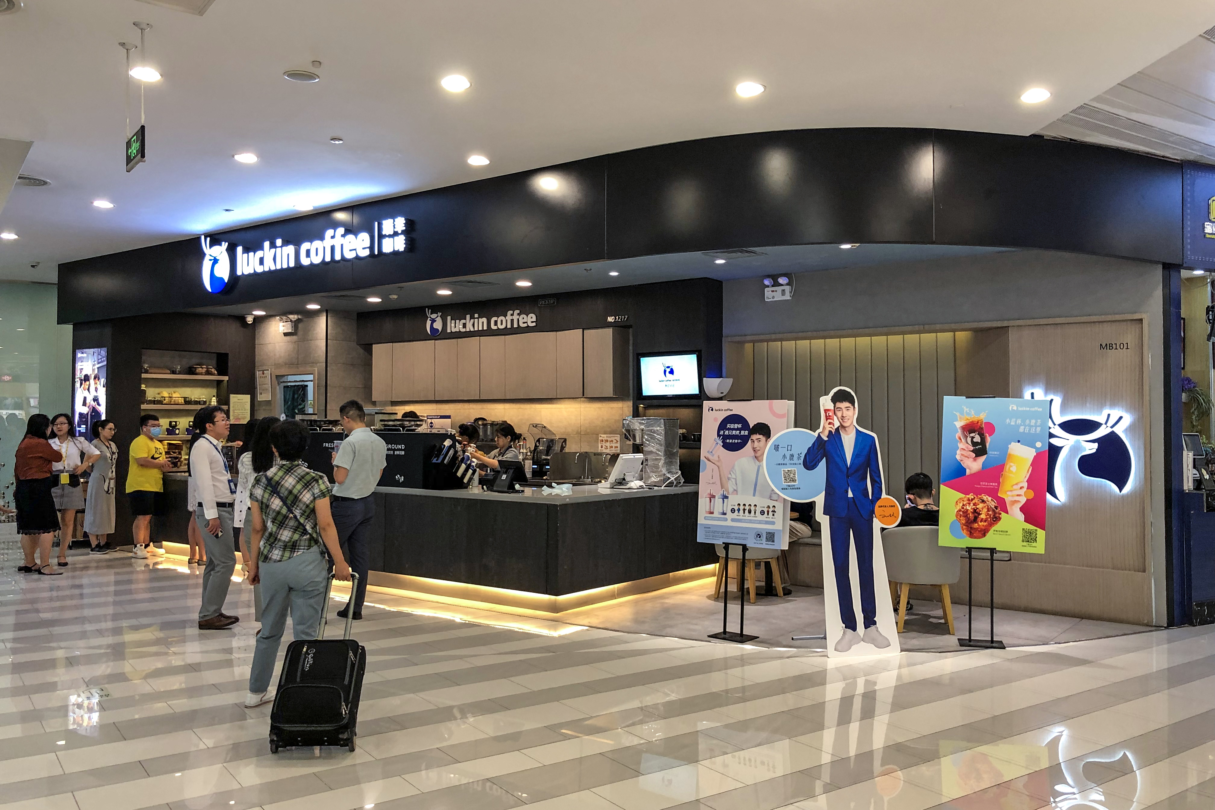 Deer logo visible.